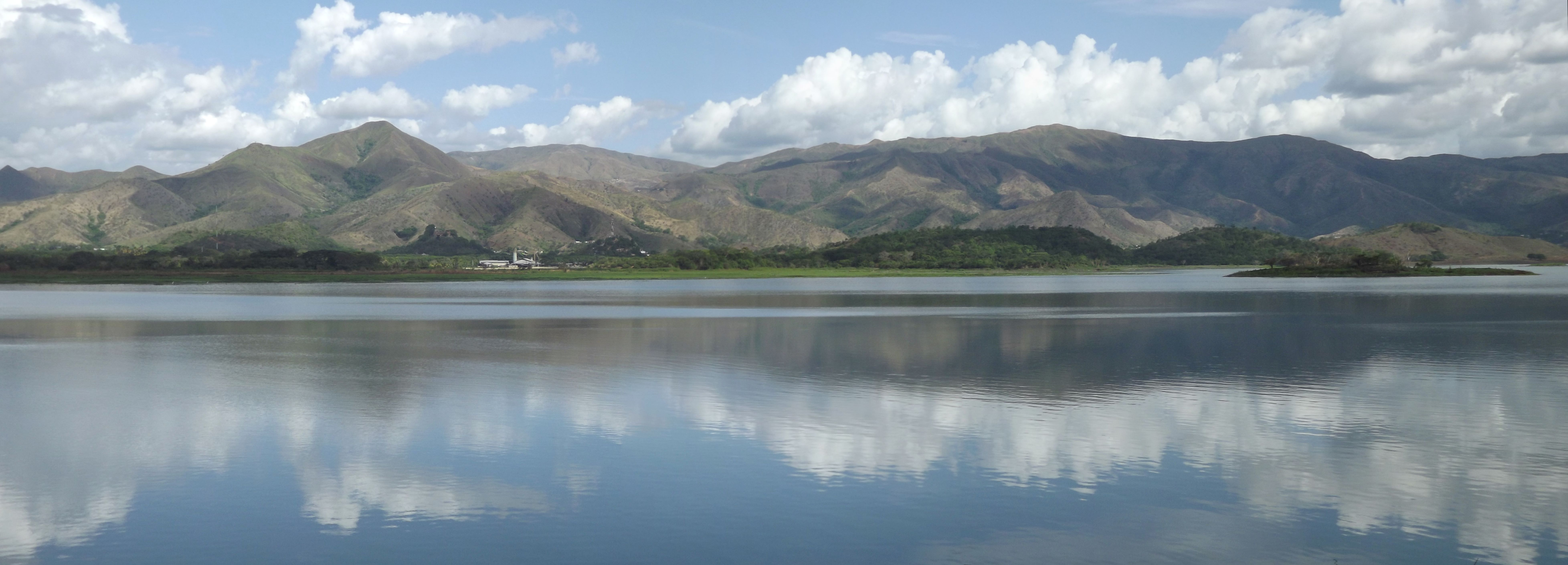 Embalse de Zuata